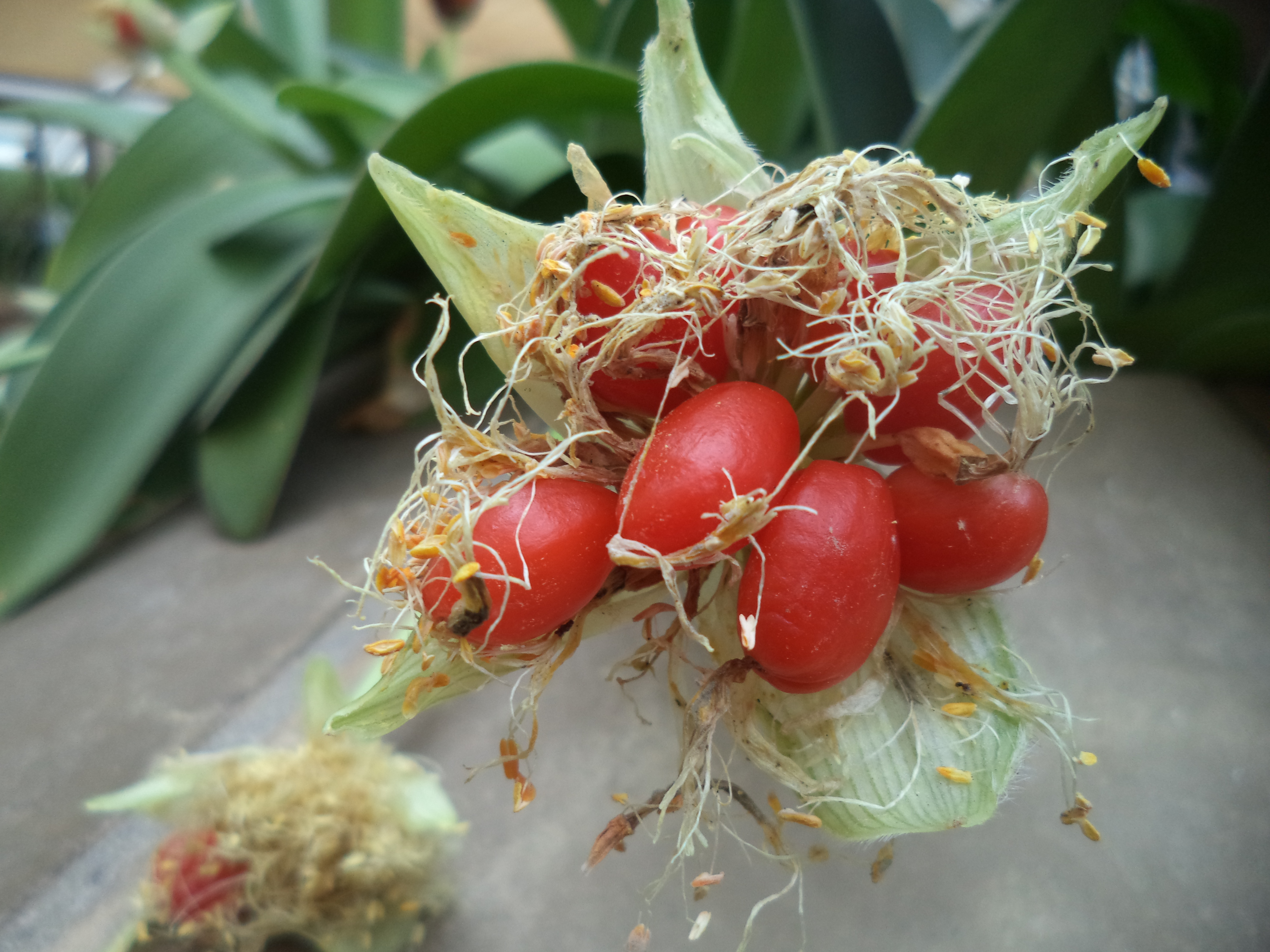 Ripe fruits of the Scadoxus puniceus in the Kirstenbosch botanical garden